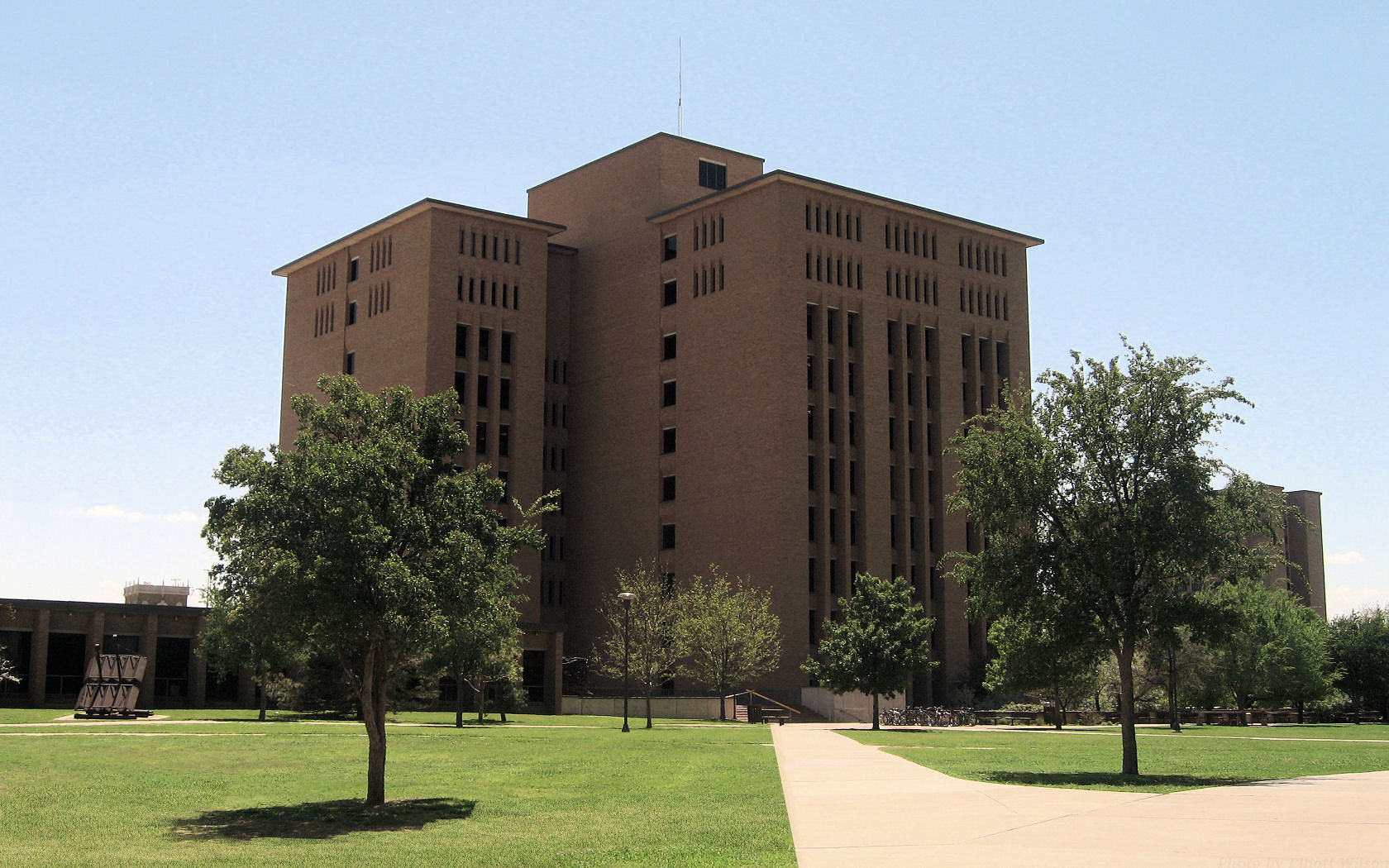 A photograph of the architecture building at Texas Tech University campus in Lubbock, Texas. Image dimensions: 1680 x 1050.